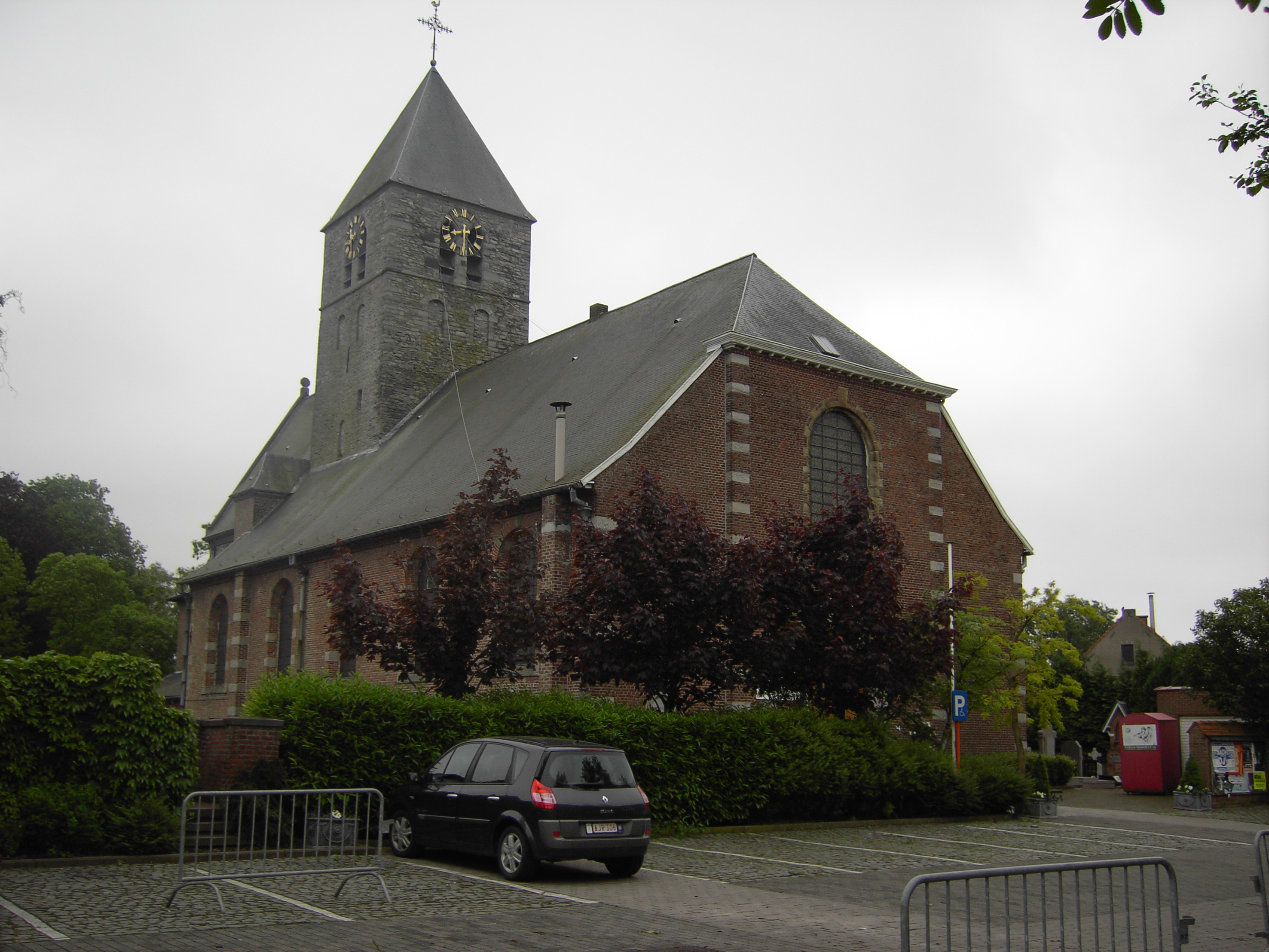 Church of Saint Maurus in Elsegem. Elsegem, Wortegem-Petegem, East Flanders, Belgium.